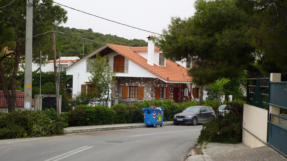 The above picture depicts a neighbourhood at Nea Penteli.